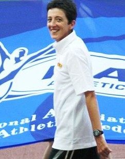 Olympic champion Rosa Mota in 2007